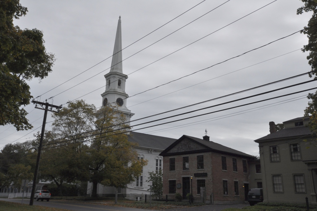 Thompson Hill Historic District, Thompson, Connecticut. The church and other buildings adjacent to the central green.